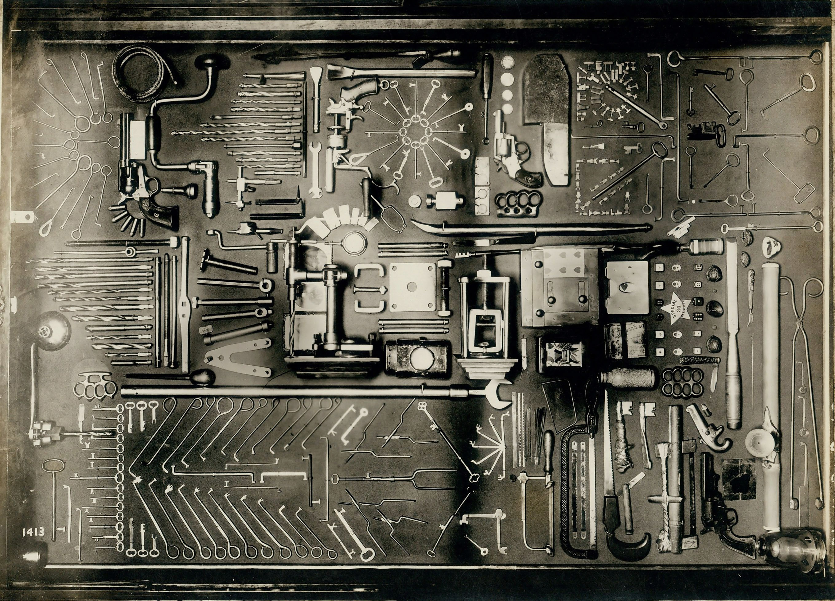 Police Chief William Desmond's collection of burglars' tools and criminal curios displayed at the 1904 World's Fair.